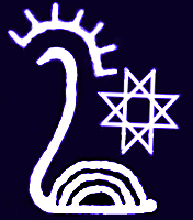 Ancient symbols of Baltic Finns. Swan from petroglyph, octagram from folk art. For icon of stub article. Made by: Tuohirulla